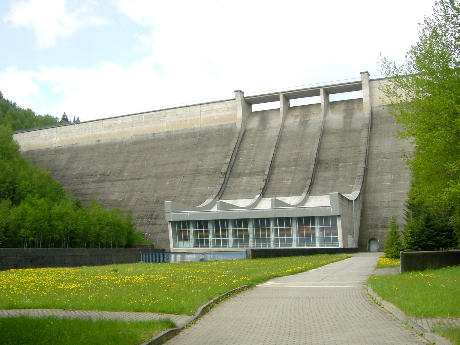 Eibenstock dam, Germany